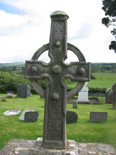 Ahenny High Cross Ahenny high crosses, are set in a small graveyard, dating from around 700 or 800 AD.